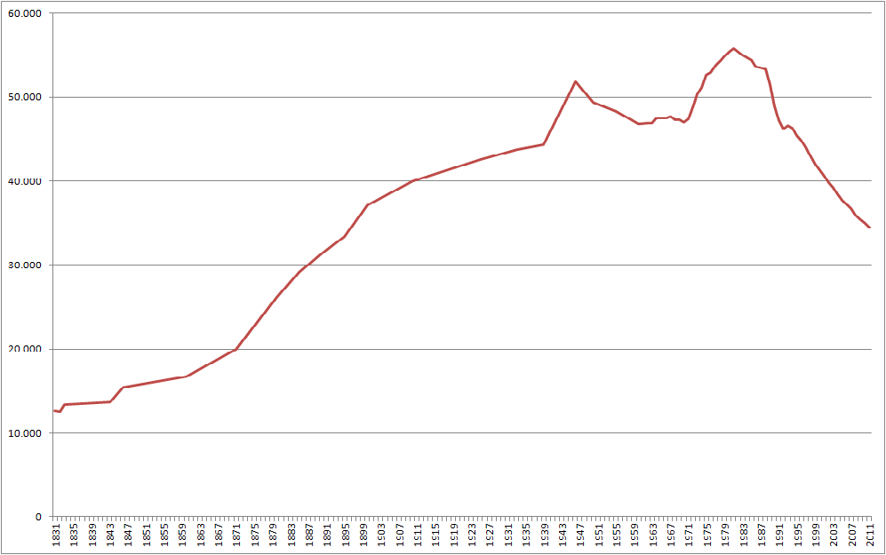 This image shows the population statistics of Altenburg/Thuringia